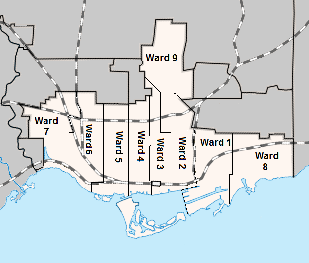 map of Toronto wards as used in 1964